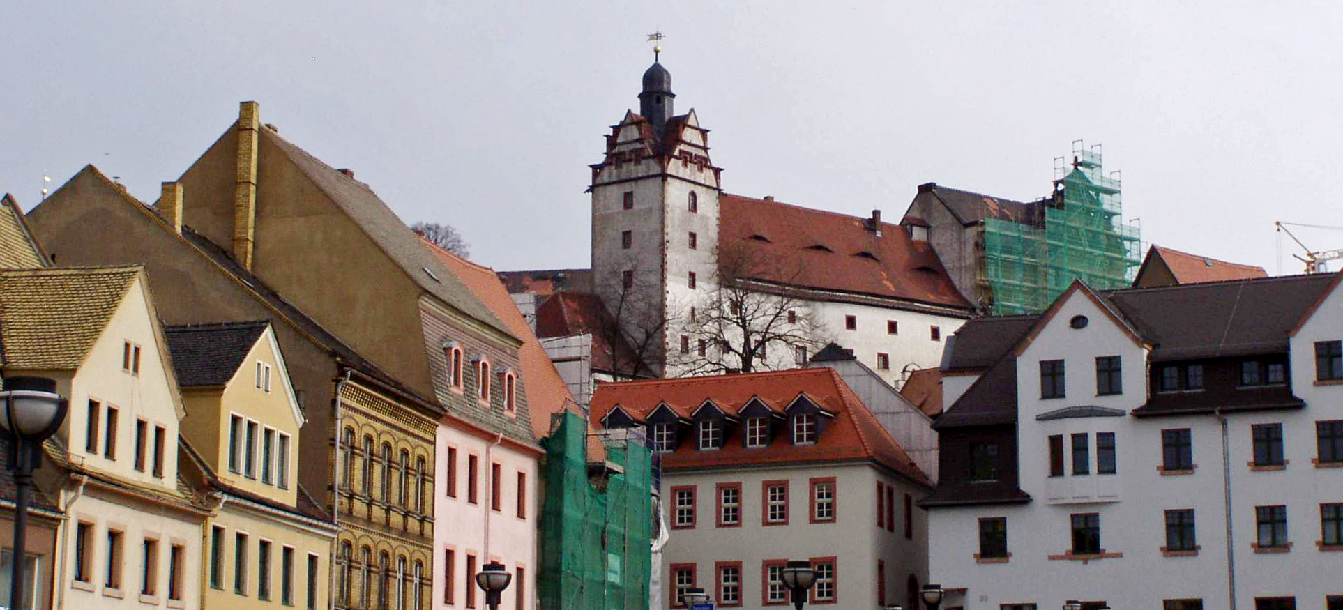 A cropped version of Image:Colditz_Castle2.jpg, same rights apply.